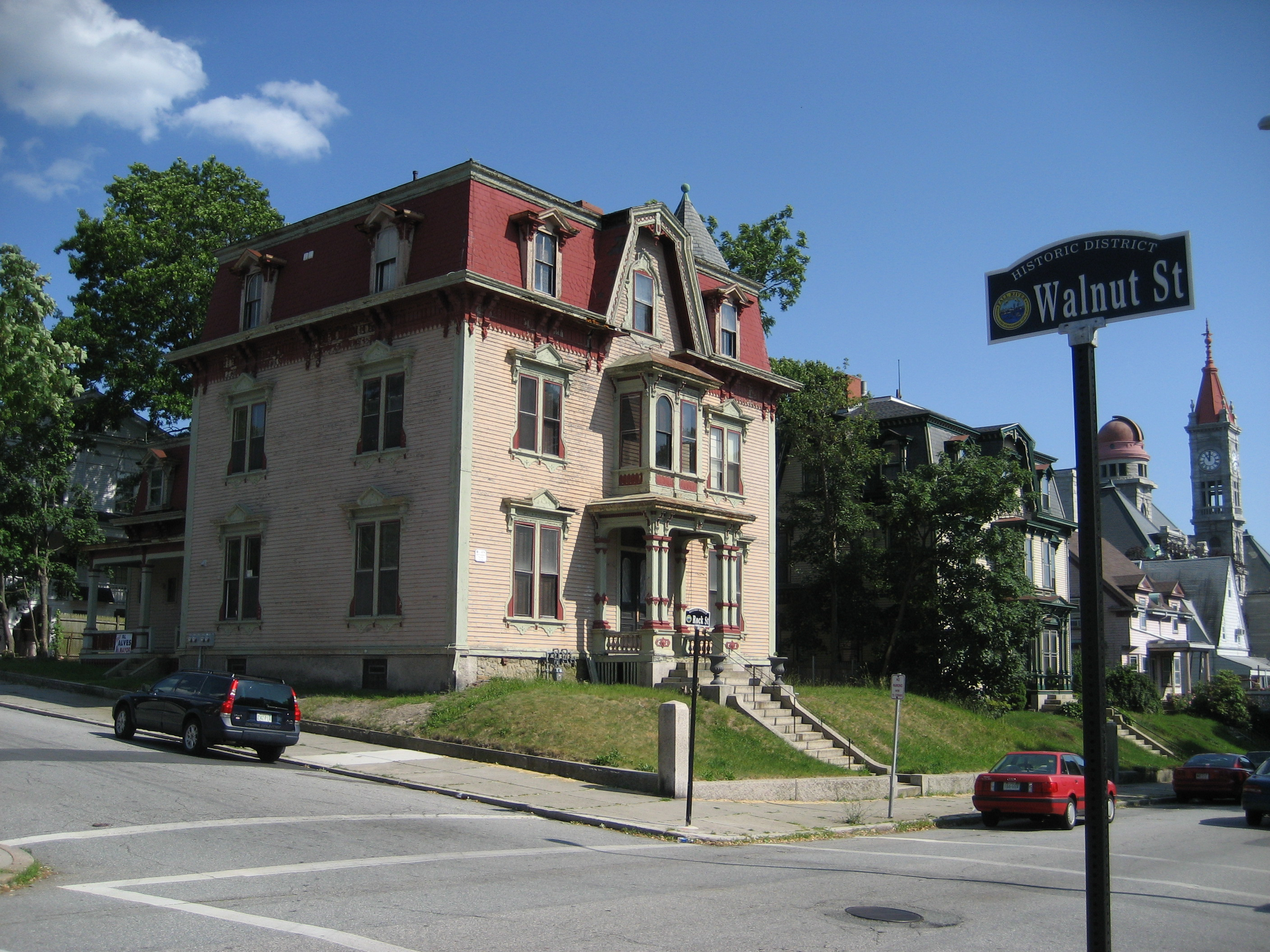 Fall River, Massachusetts. Walnut Street Historic District; BMC Durfee School building in distance.